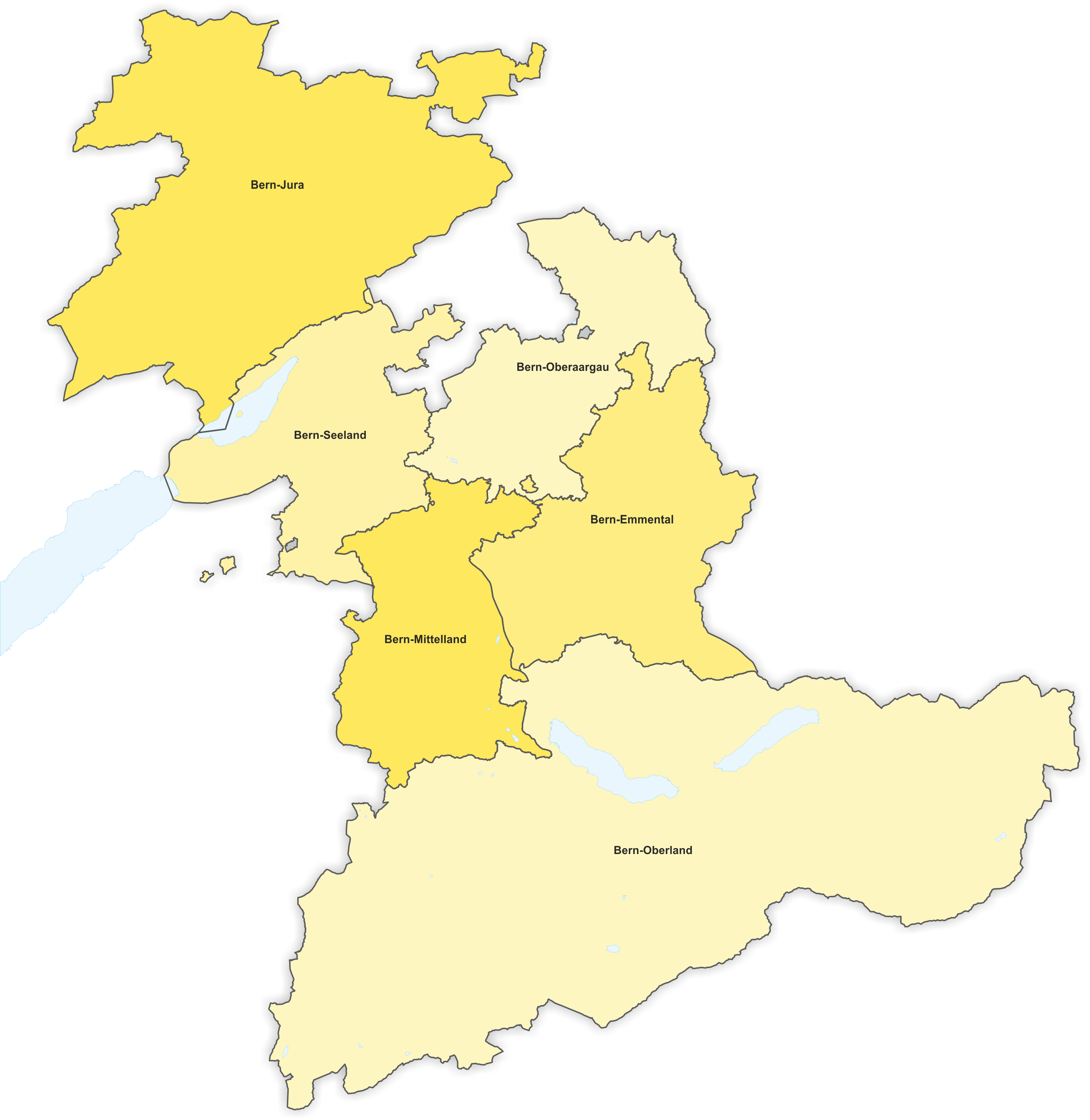 National council constituencies in the canton of Bern from 1848 to 1869